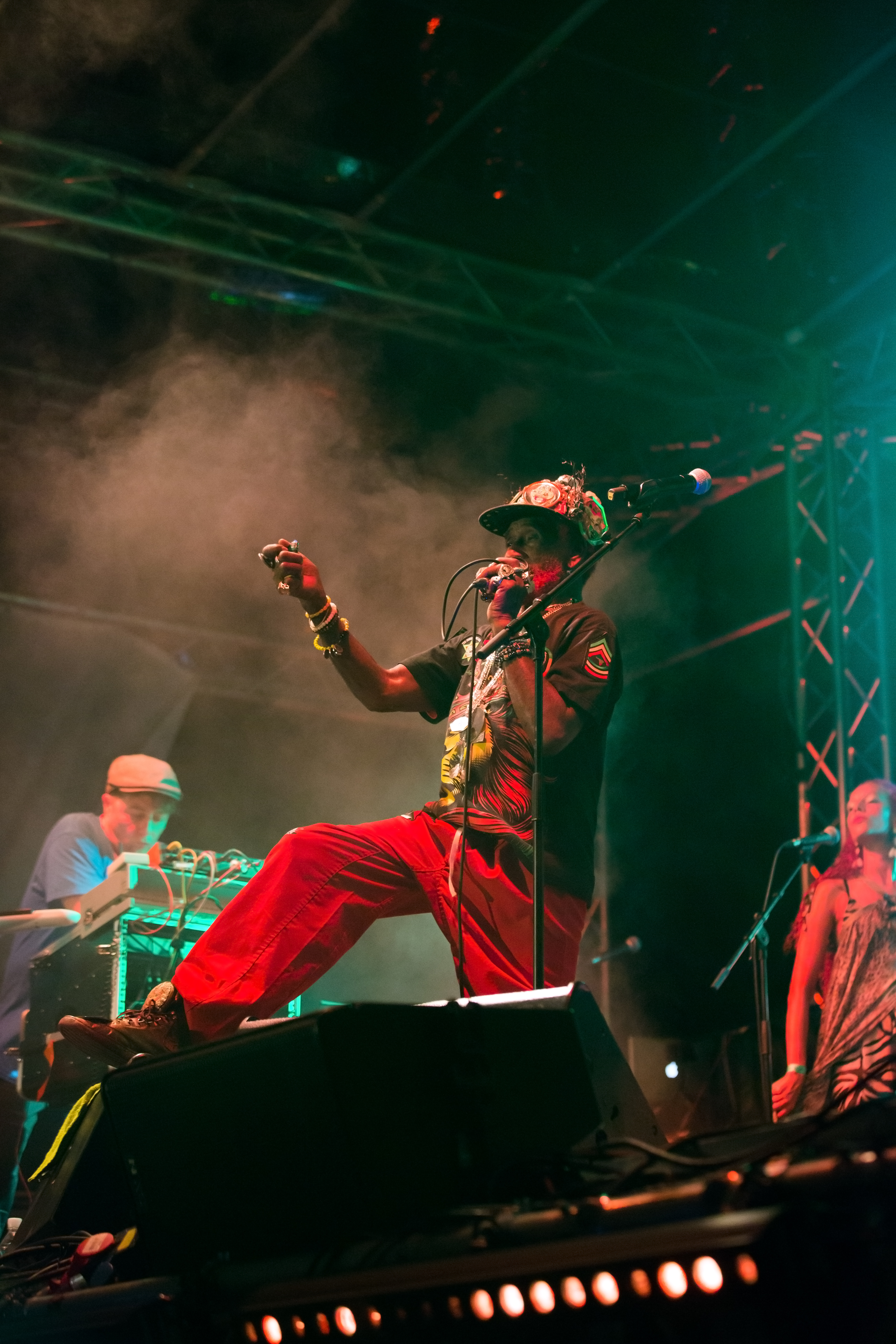 Dubblestandart and Lee "Scratch" Perry at Popfest 2015; Karlsplatz in Vienna, Austria.